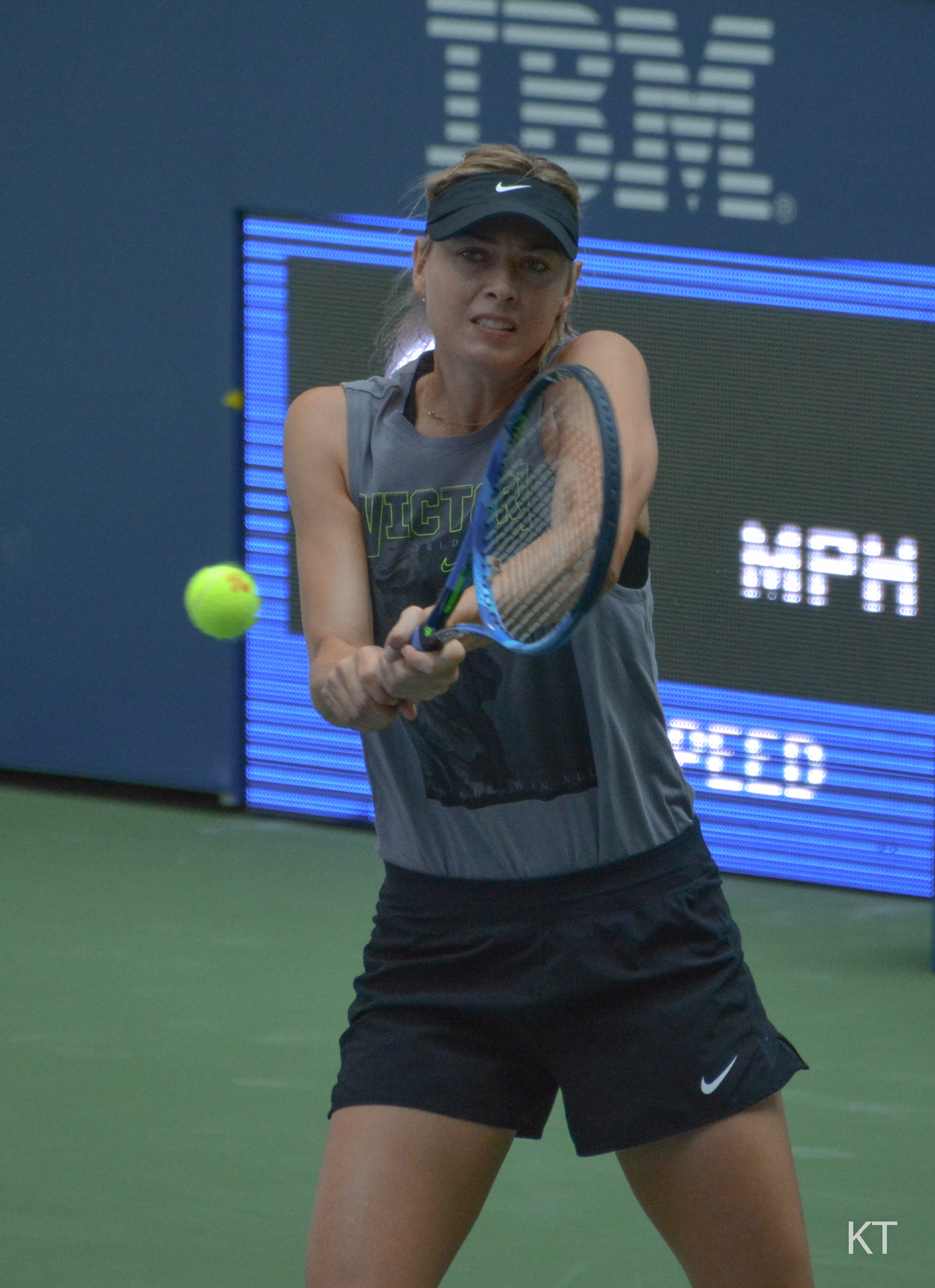 US Open – Practice day, Sunday 26th August 2018